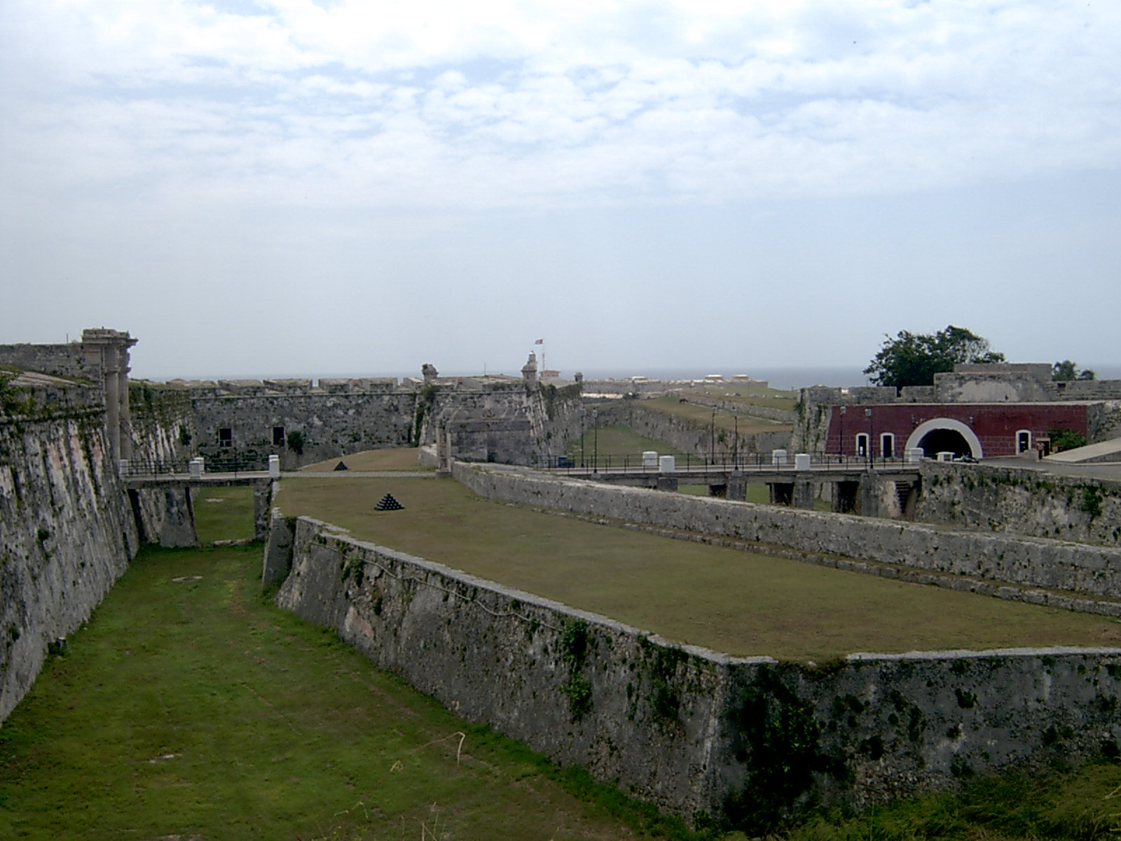 The walls of the "Fortaleza de San Carlos de la Cabaña" in La Habana